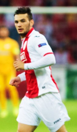 Tony Watt